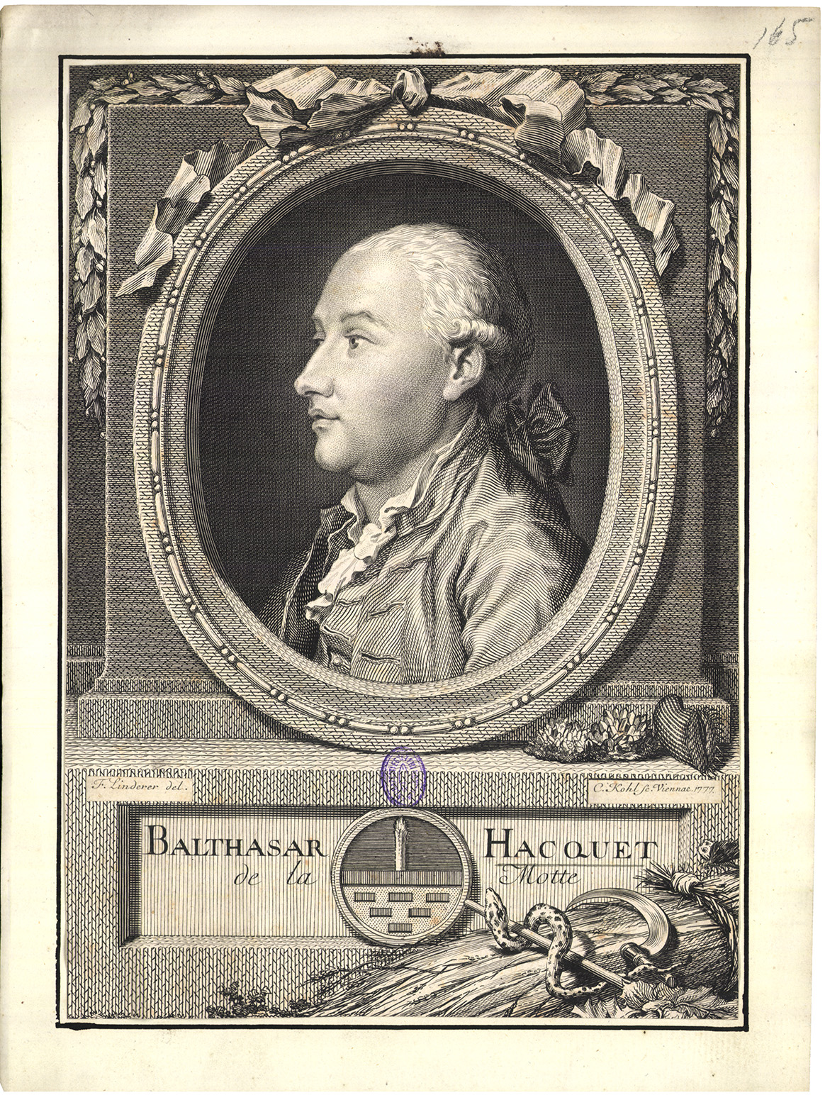 The 1777 portrait of the naturalist Balthasar Hacquet. Drawing by Franz Linderer, copper engraving by Clemens Kohl.